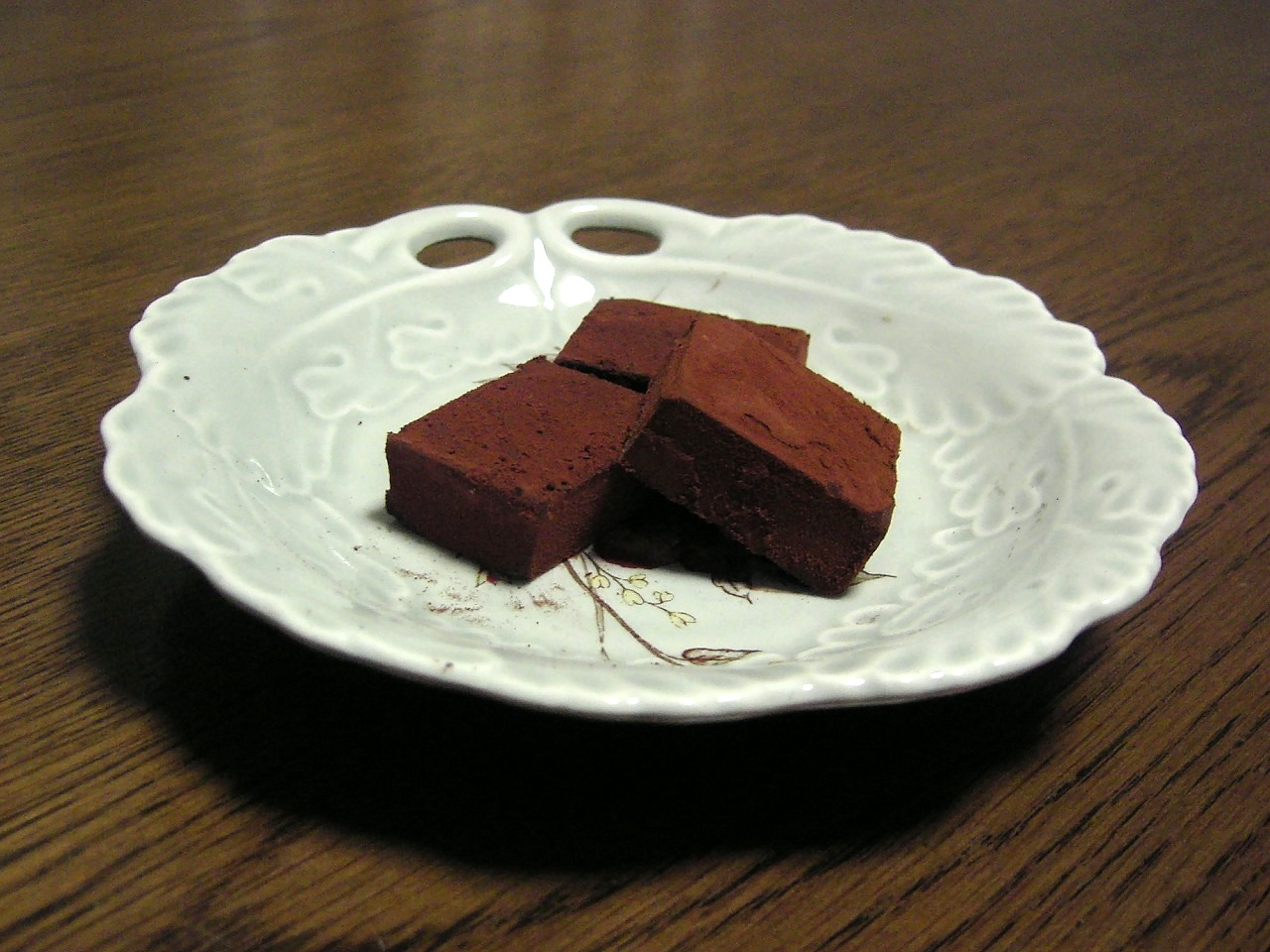 Ganaches made by Royce' Confect Co., Ltd.